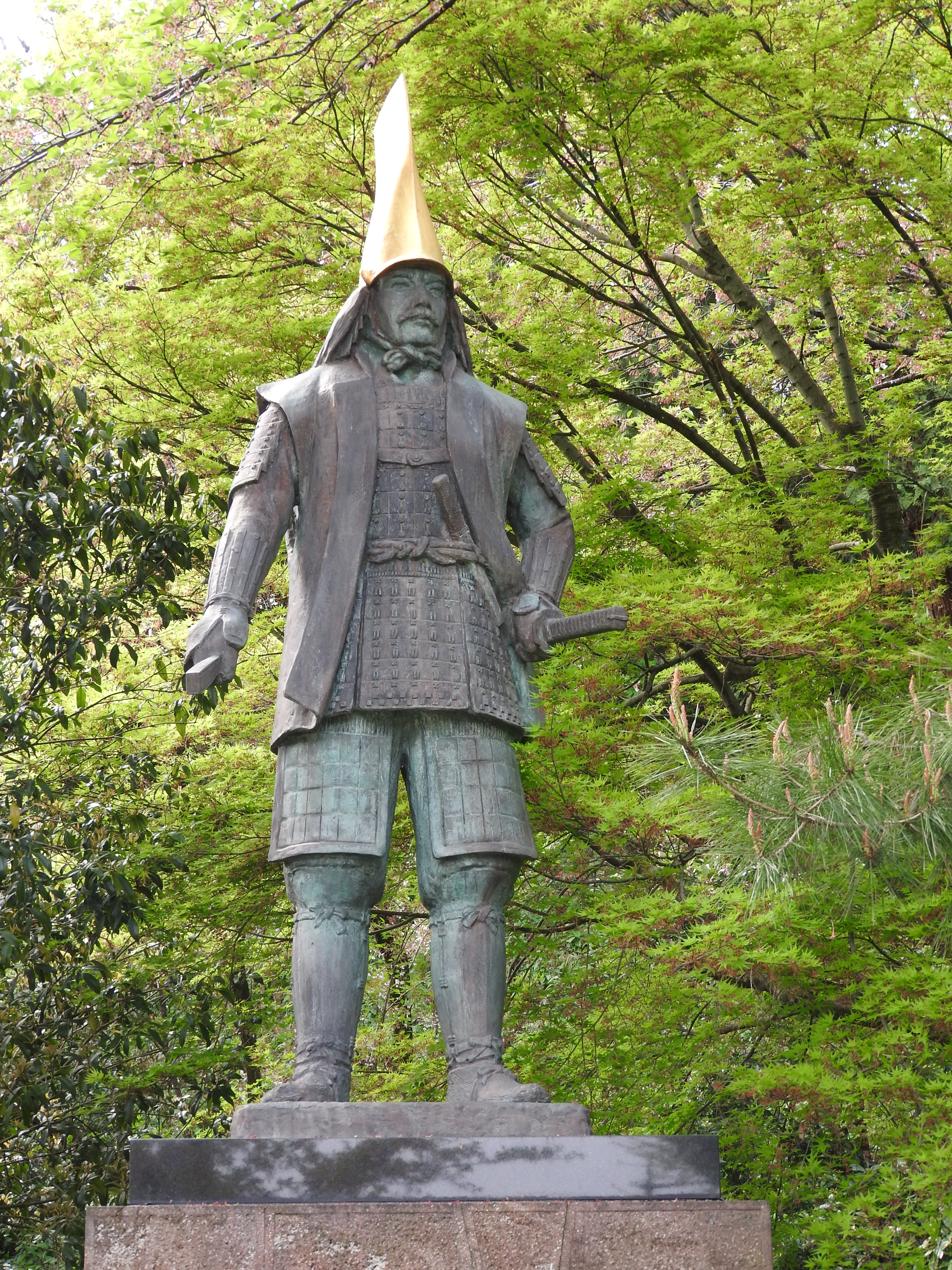 Statue of Maeda Toshiie in Kanazawa Castle Park